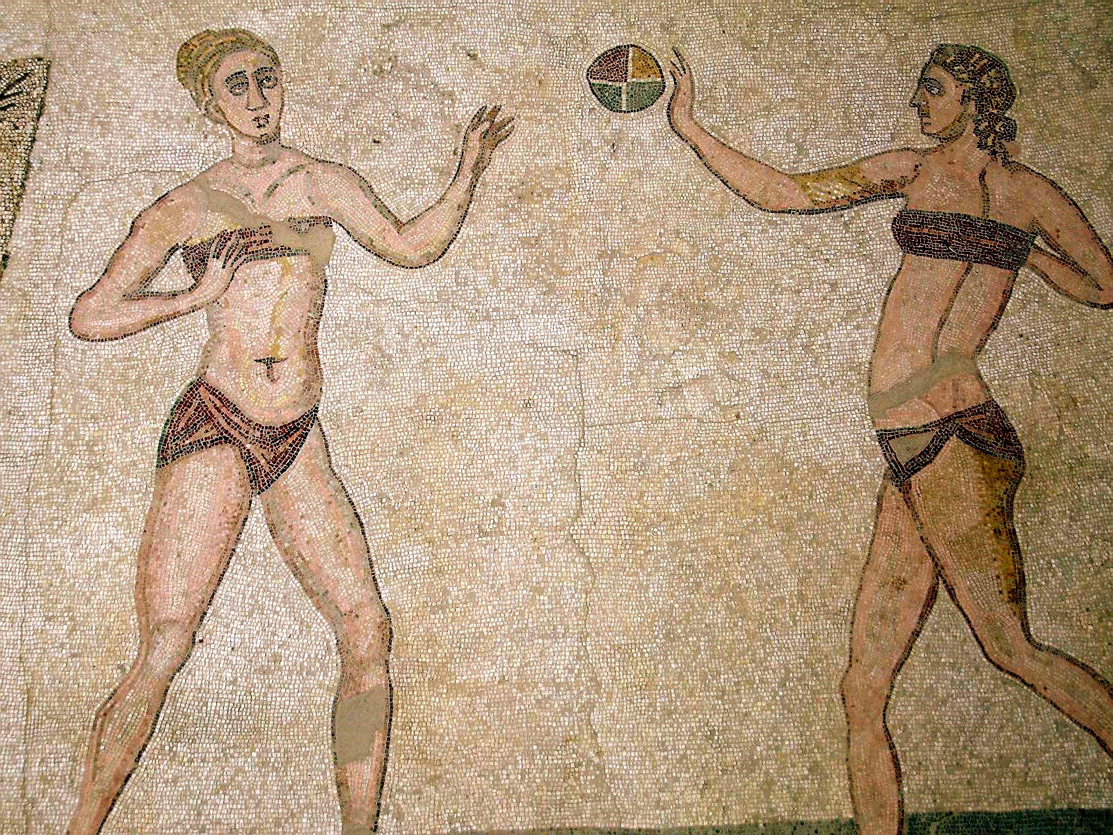 3rd Century mosaics of Bikini Girls at the Villa Romana at Piazza Armerina in Sicily